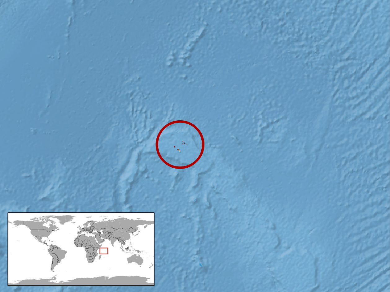 geographic distribution of Pamelaescincus gardineri